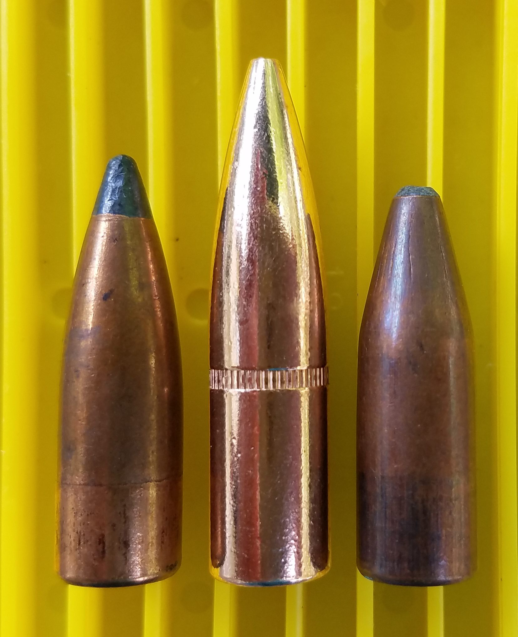 Three .30 caliber (7.62 mm) jacketed bullets weighing 150 grains (10 grams) each. The longer center bullet has a frangible core, while the outer bullets have convention lead cores of greater density.